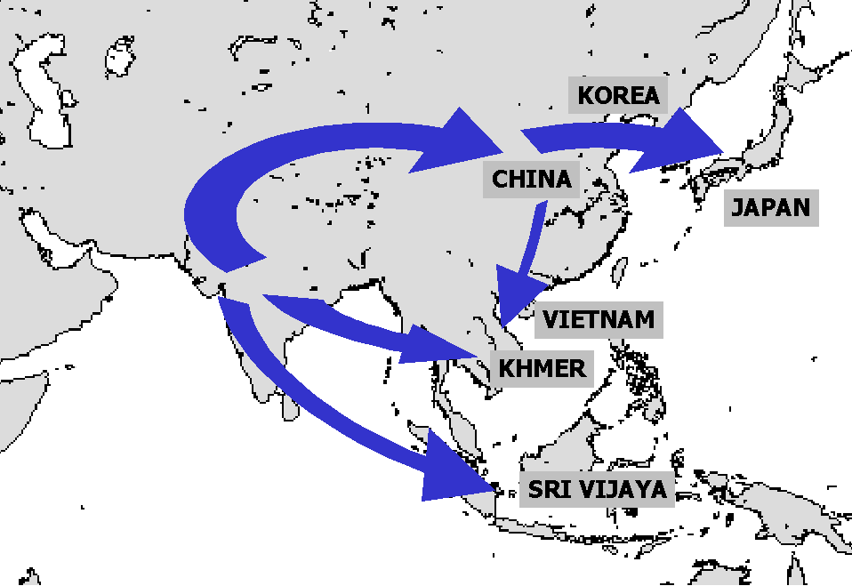 Expansion of Mahayana. Personal creation.